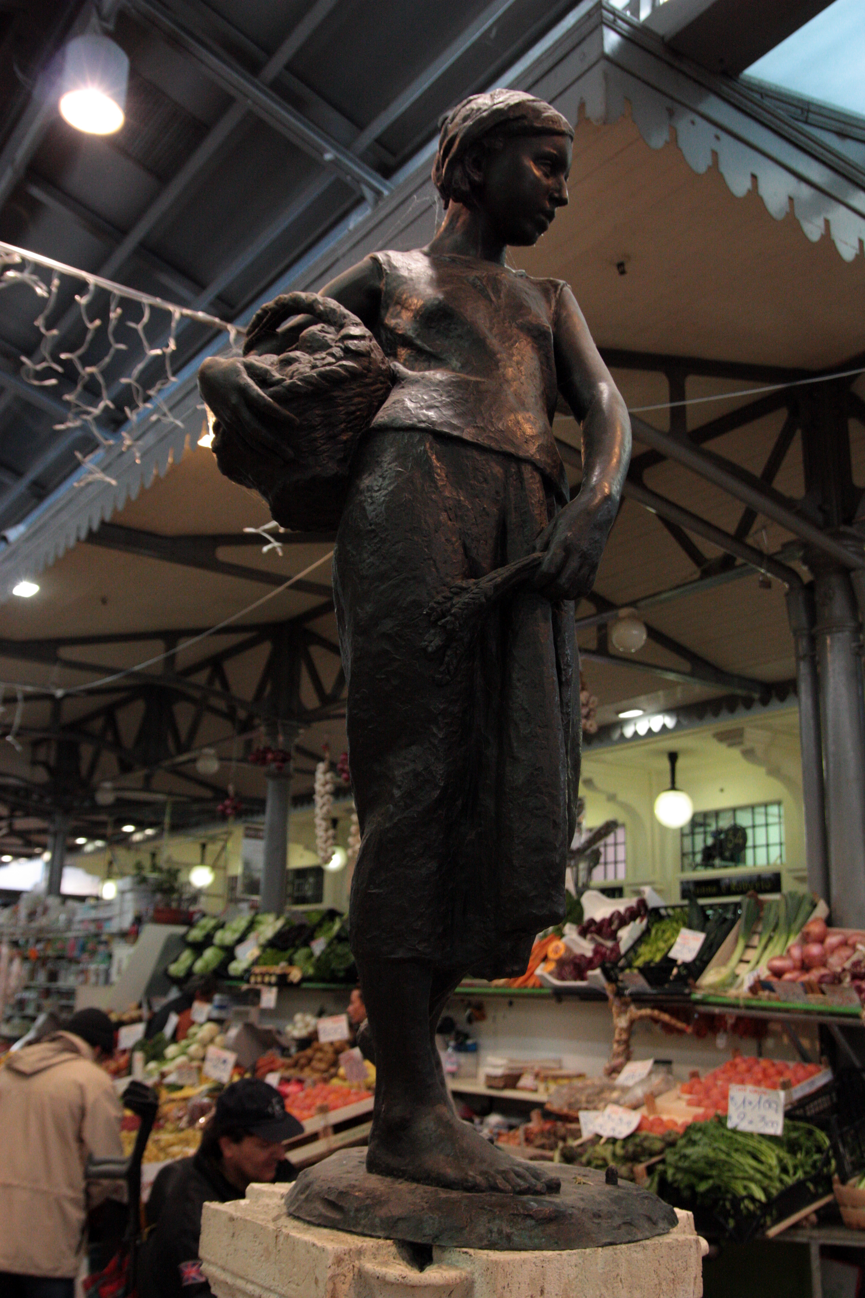 The fountain in the covered market Albinelli in Modena (Italy), work of architect Giuseppe Graziosi.